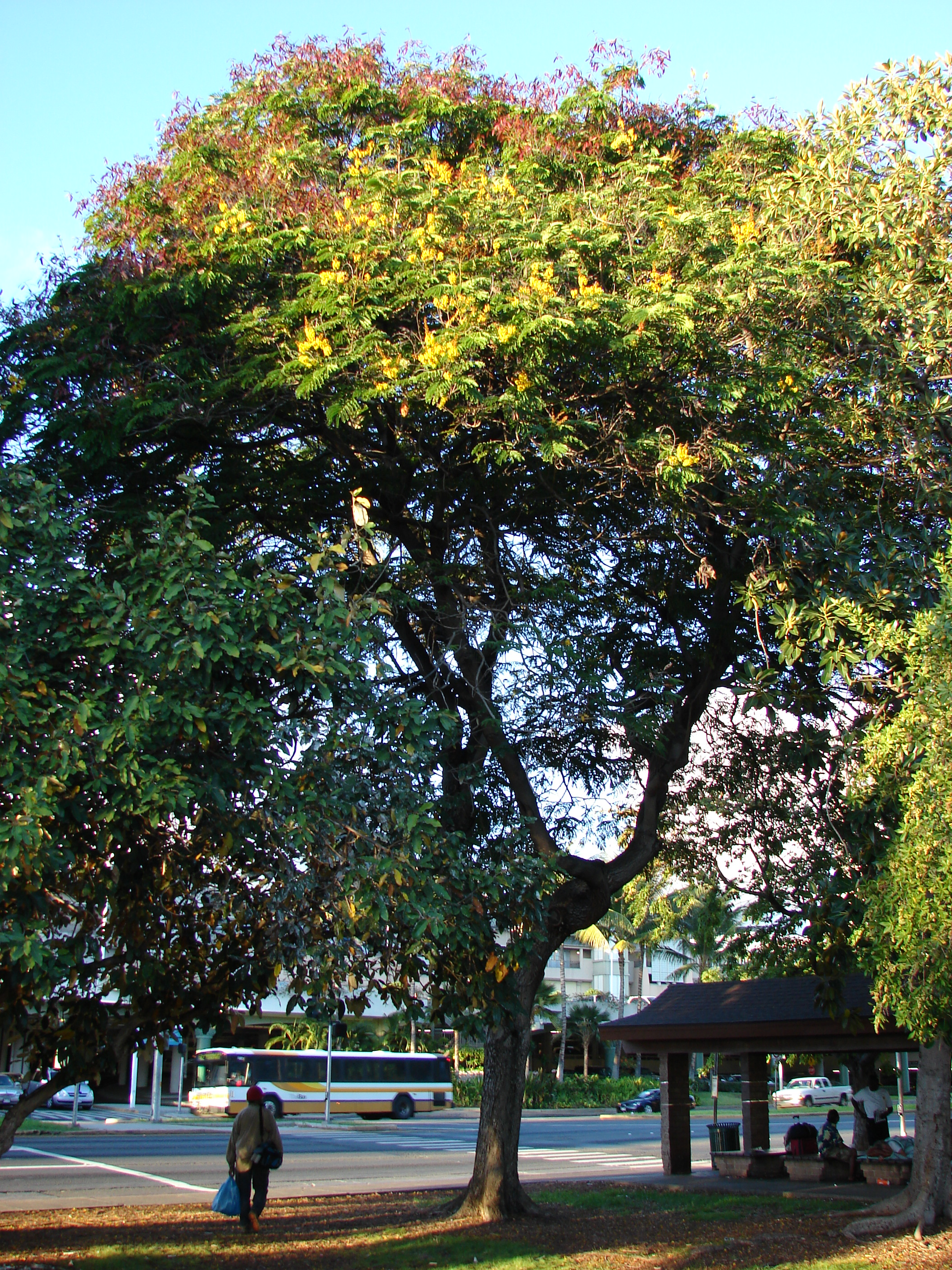 Peltophorum pterocarpum (habit and city bus in background). Location: Oahu, Ala Moana Beach Park